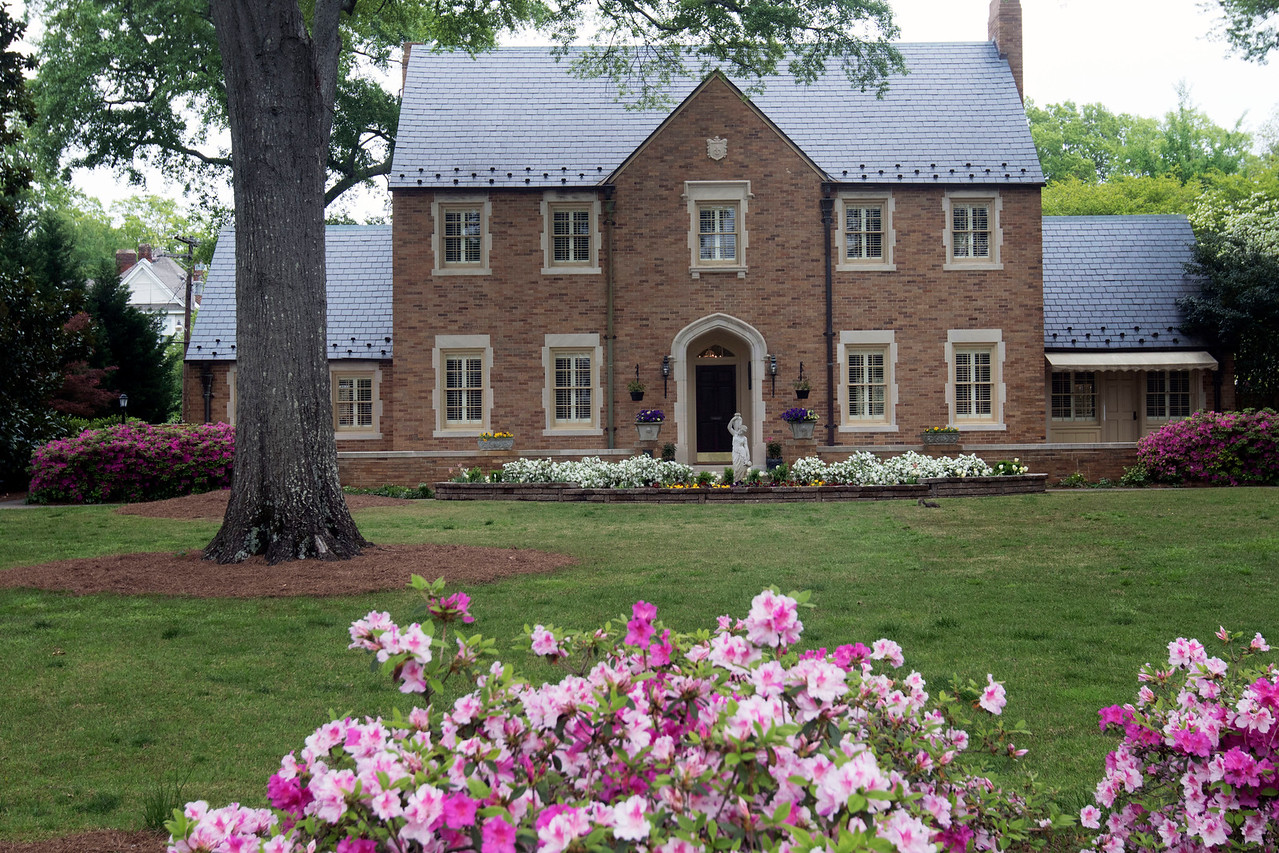 President's Home